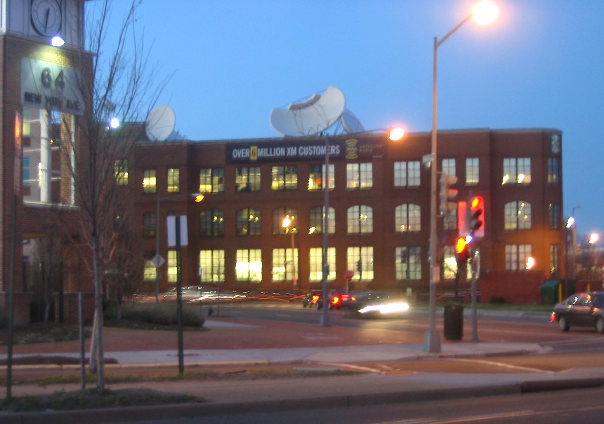 XM Satellite Radio headquarters, across the street from Washington, D.C.'s main FedEx distribution facility, and located near the New York Avenue metro station.